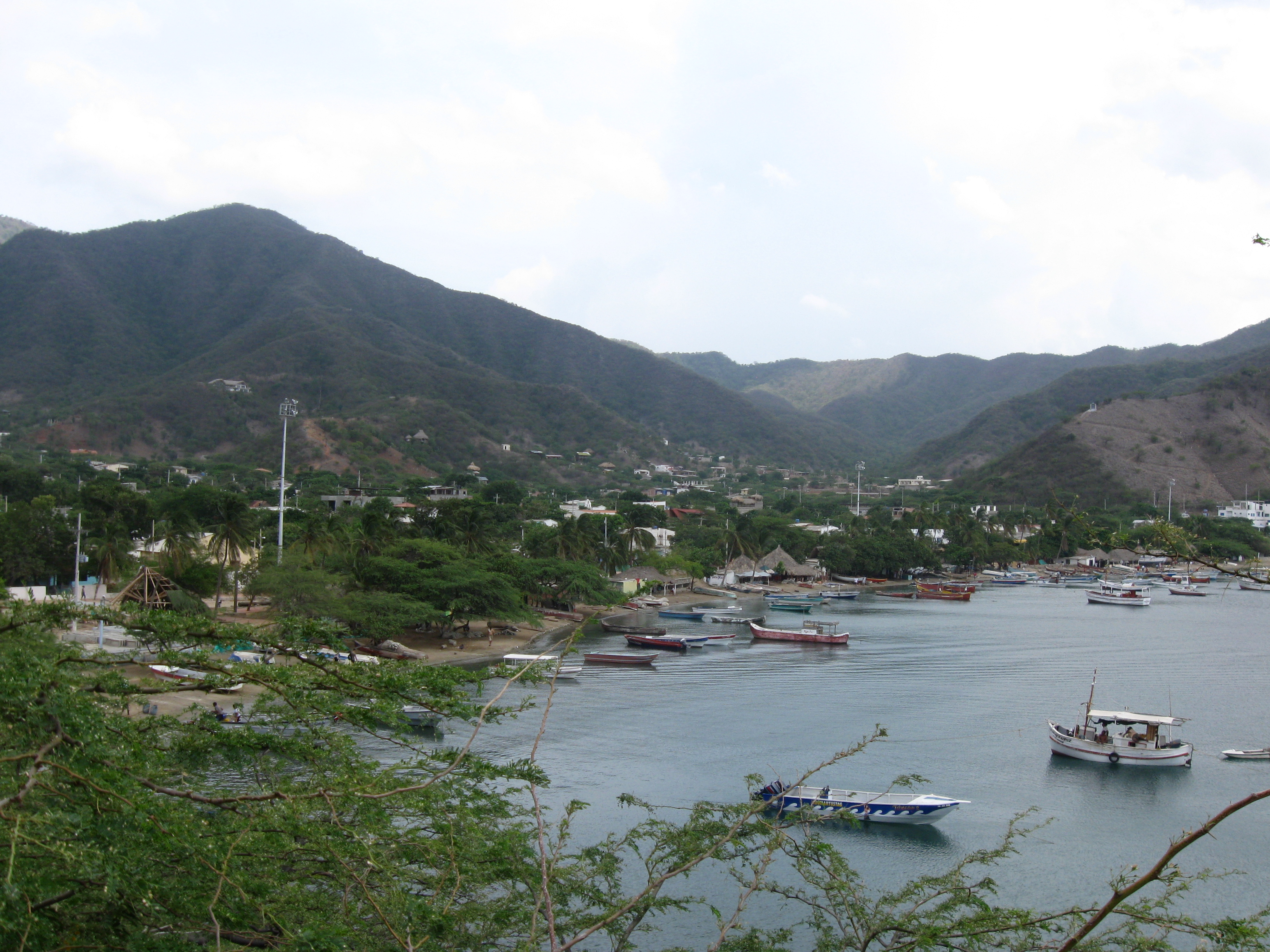 Panoramic photograph of the village of Taganga